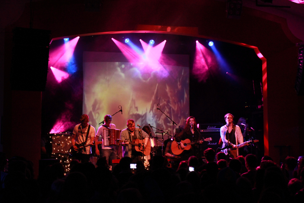 Of Monsters and Men live at October 14, 2011